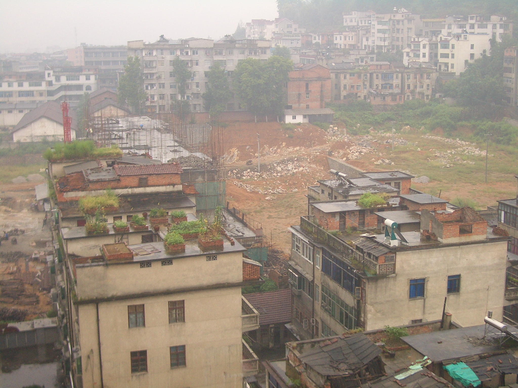 An apartment complex in downtown Tongyang Town, the county seat of Tongshan County, Hubei. Note the creative use of the building roofs!